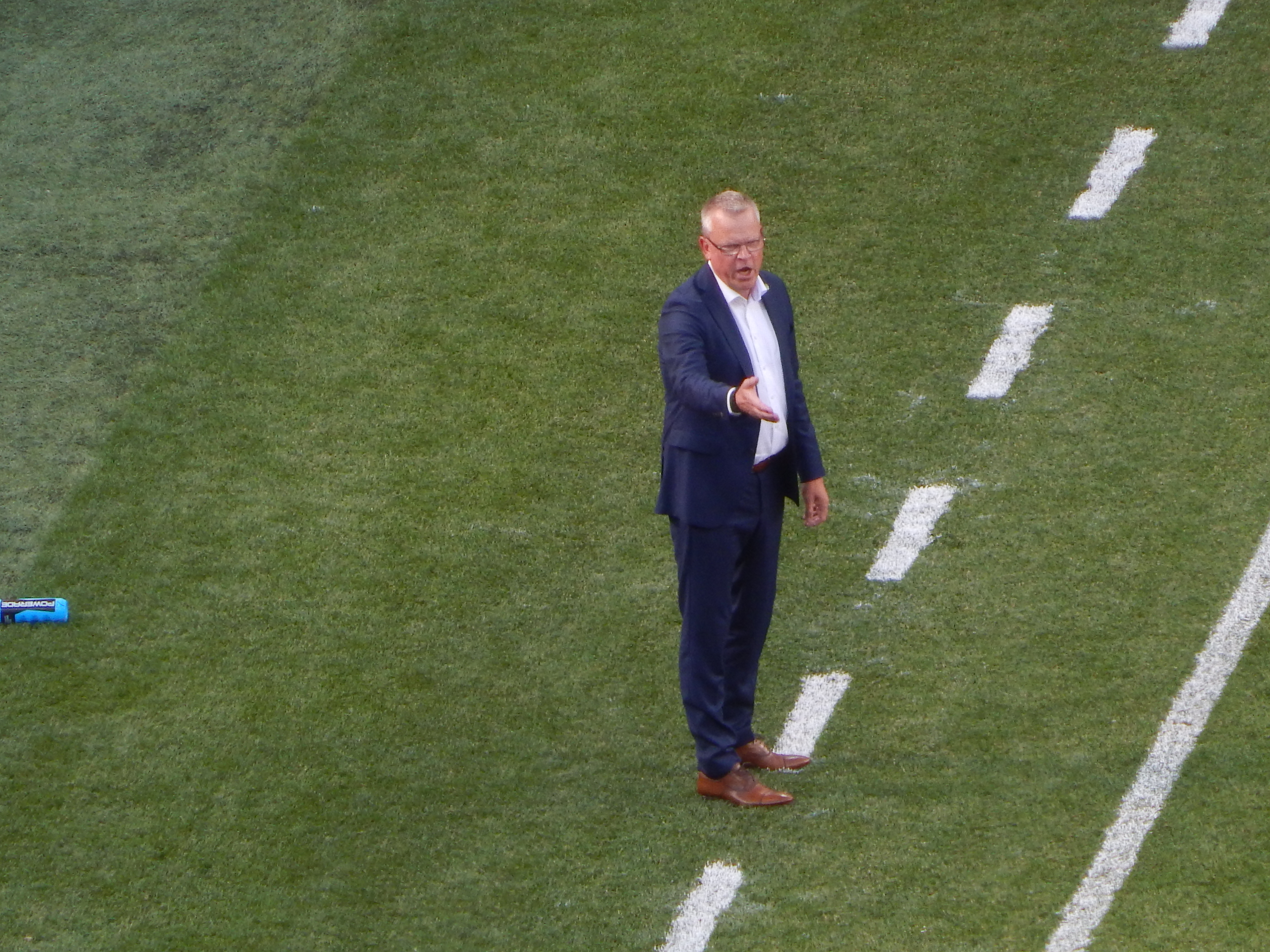 2018 FIFA World Cup - Group F - KOR v SWE. Janne Andersson